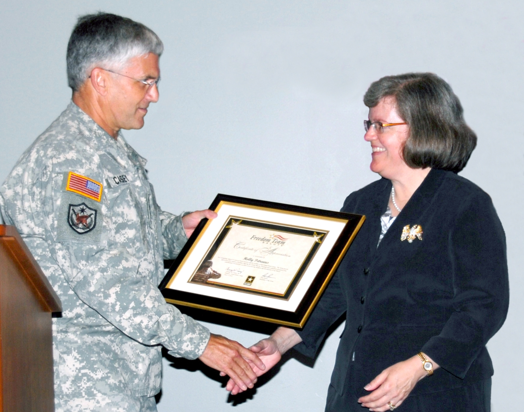 Army Chief of Staff Gen. George W. Casey Jr. presents a Freedom Team Salute Commendation to Holly Petraeus, wife of Multinational Force - Iraq Commander Gen. David H. Petraeus Oct. 9 during the annual convention of the Association of the United States Army. An Army "brat" and Army spouse of 32 years, Mrs. Petraeus received the commendation for her support to Soldiers. Freedom Team Salute is an official program sponsored by the secretary of the Army and Army chief of staff. The ceremony was also attended by Sterling K. Brown, cast member of Lifetime TV's "Army Wives."